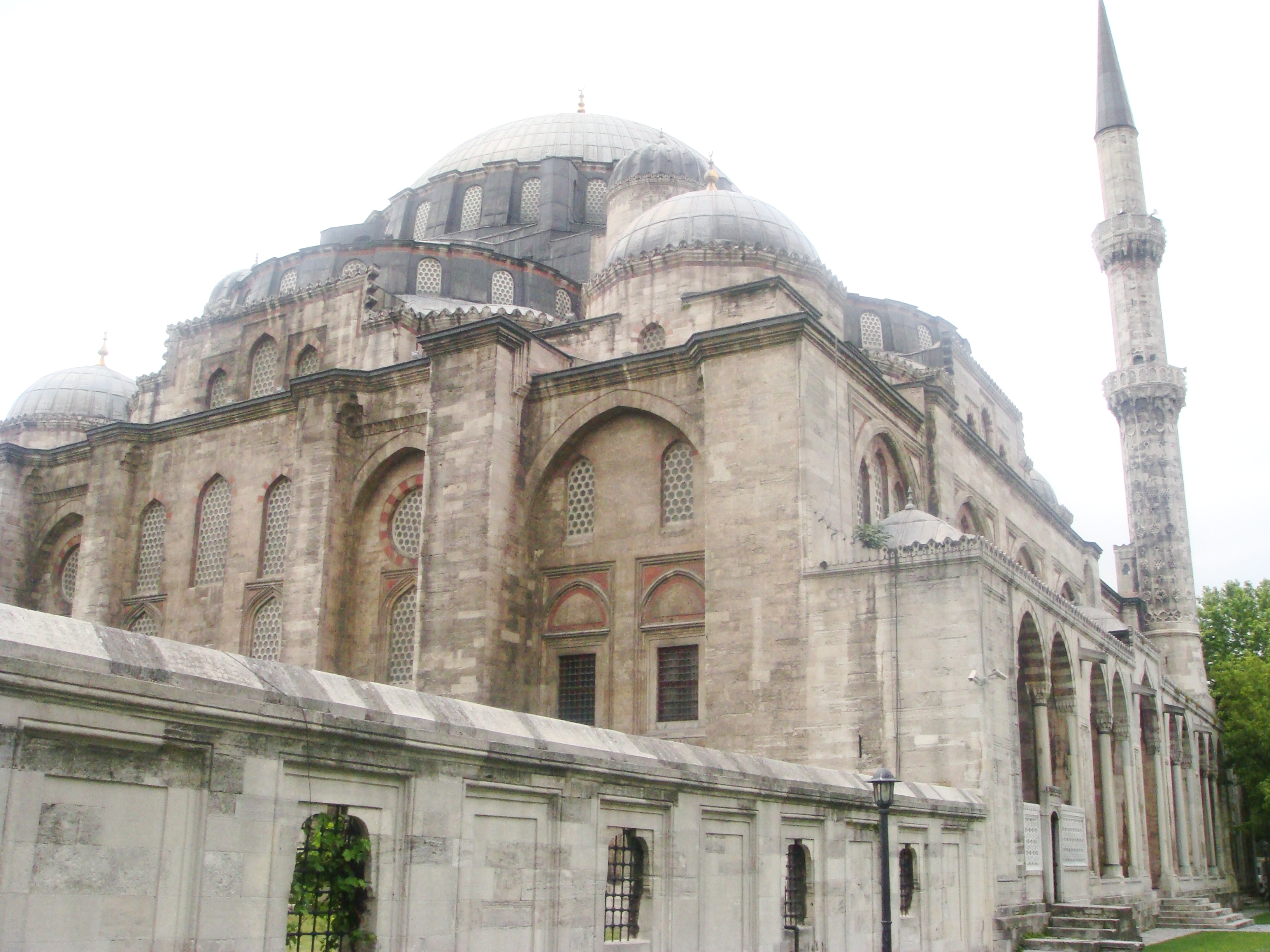 The external view of Sehzade Mosque in Fatih District, Istanbul, Turkey